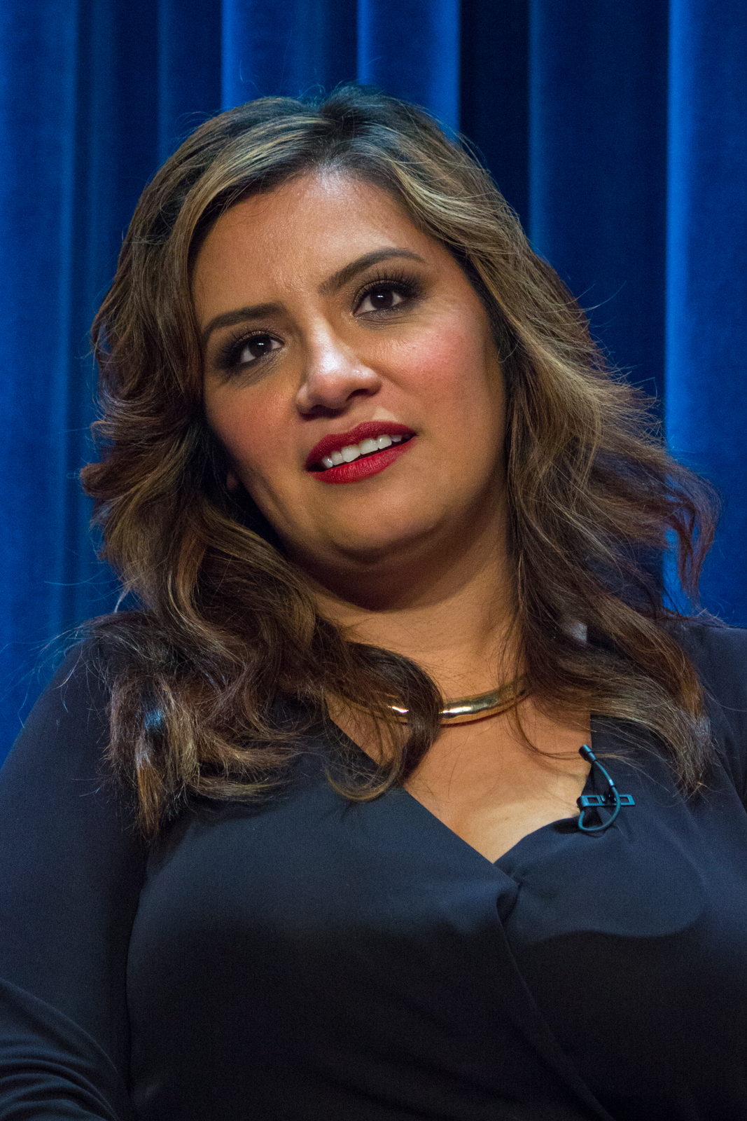 Actress/Comedian Cristela Alonzo at the PaleyFest Fall TV Previews 2014 for the ABC show "Cristela"